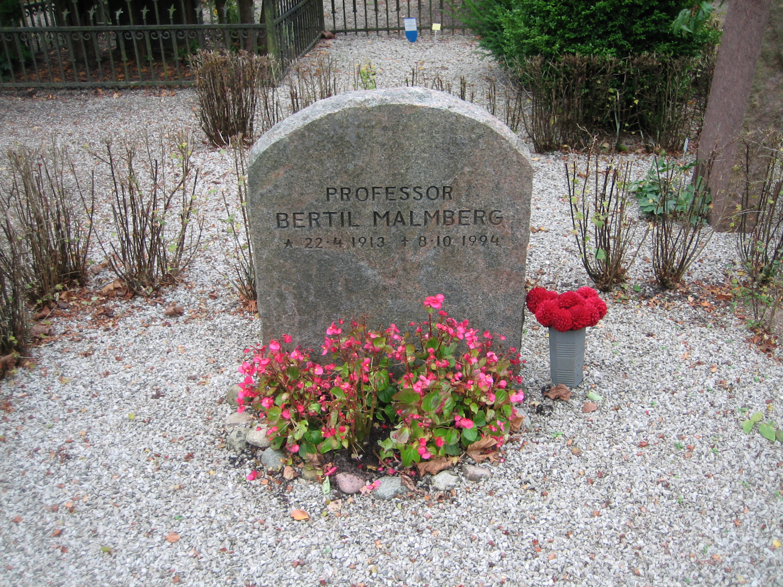 Grave of swedish professor Bertil Malmberg (1913-1994). Photo taken at Östra kyrkogården, Lund, Sweden 081011 by the uploader.